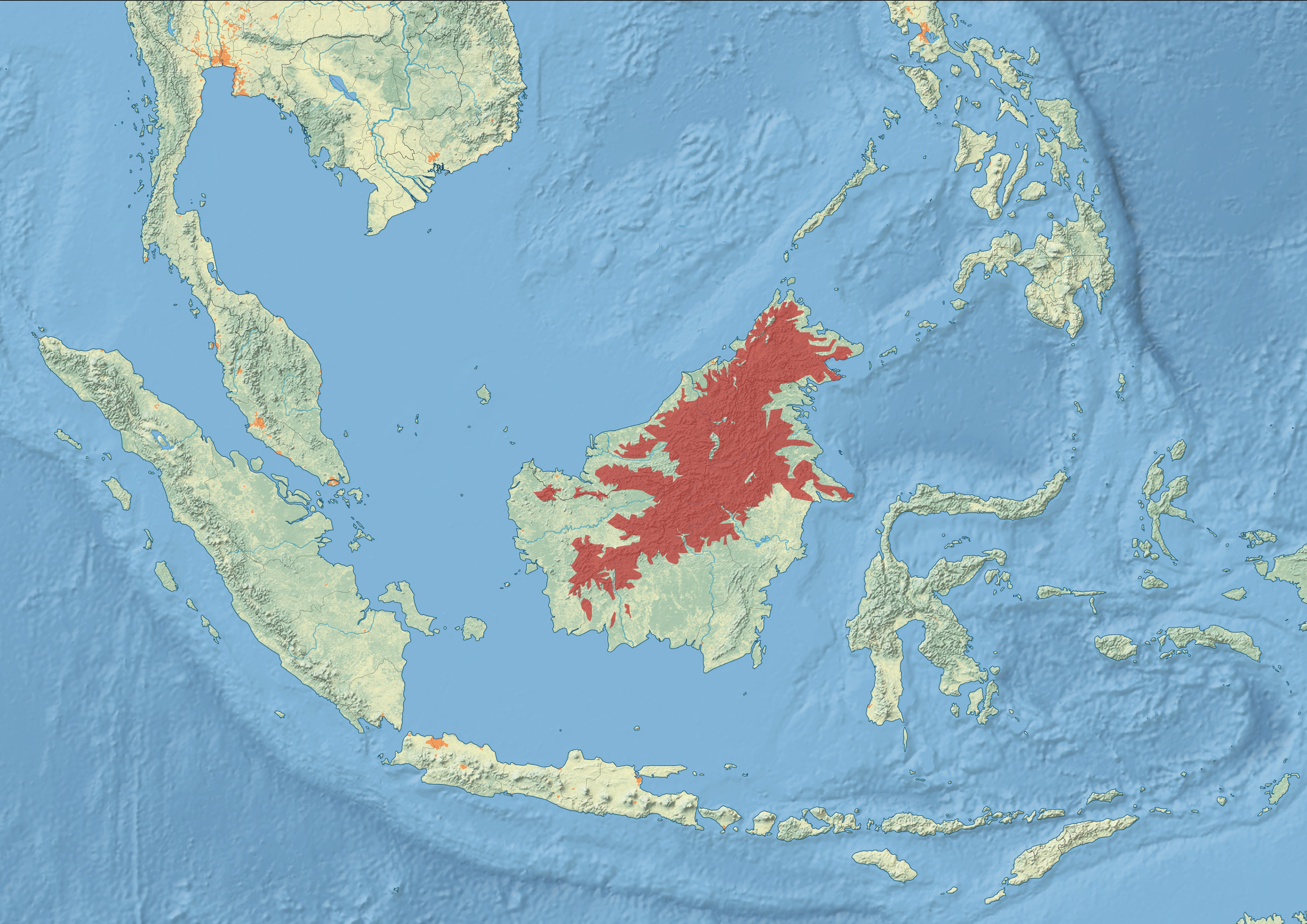 The IUCN Distribution of Blue-banded Pitta Maroon = Resident Purple = Breeding Orange = Non-breeding Hatched = Passage Grey = Possibly Extinct Blue = Introduced